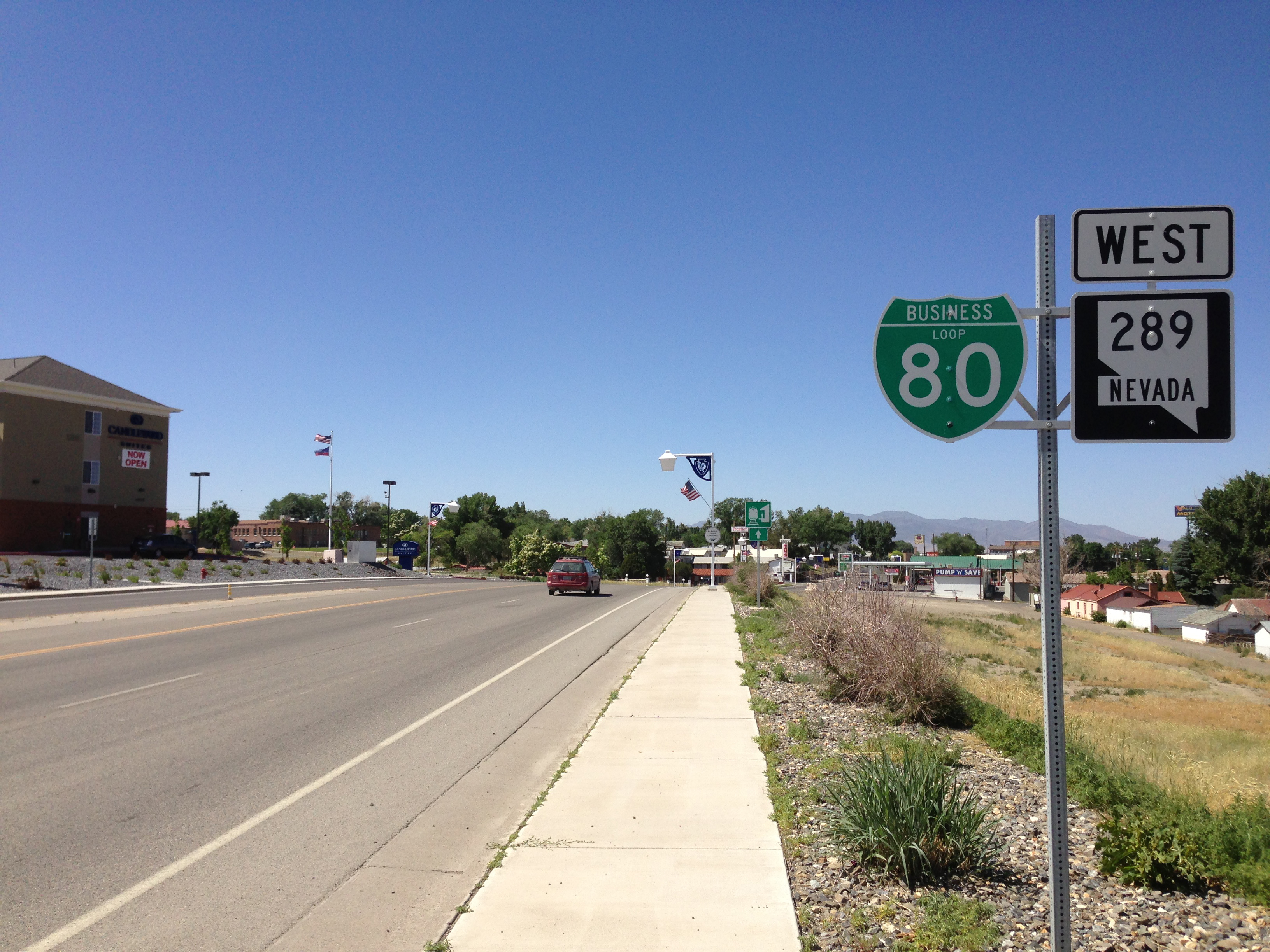 First reassurance sign for Interstate 80 Business Loop along westbound Nevada State Route 289 (Winnemucca Boulevard) in Winnemucca, Nevada